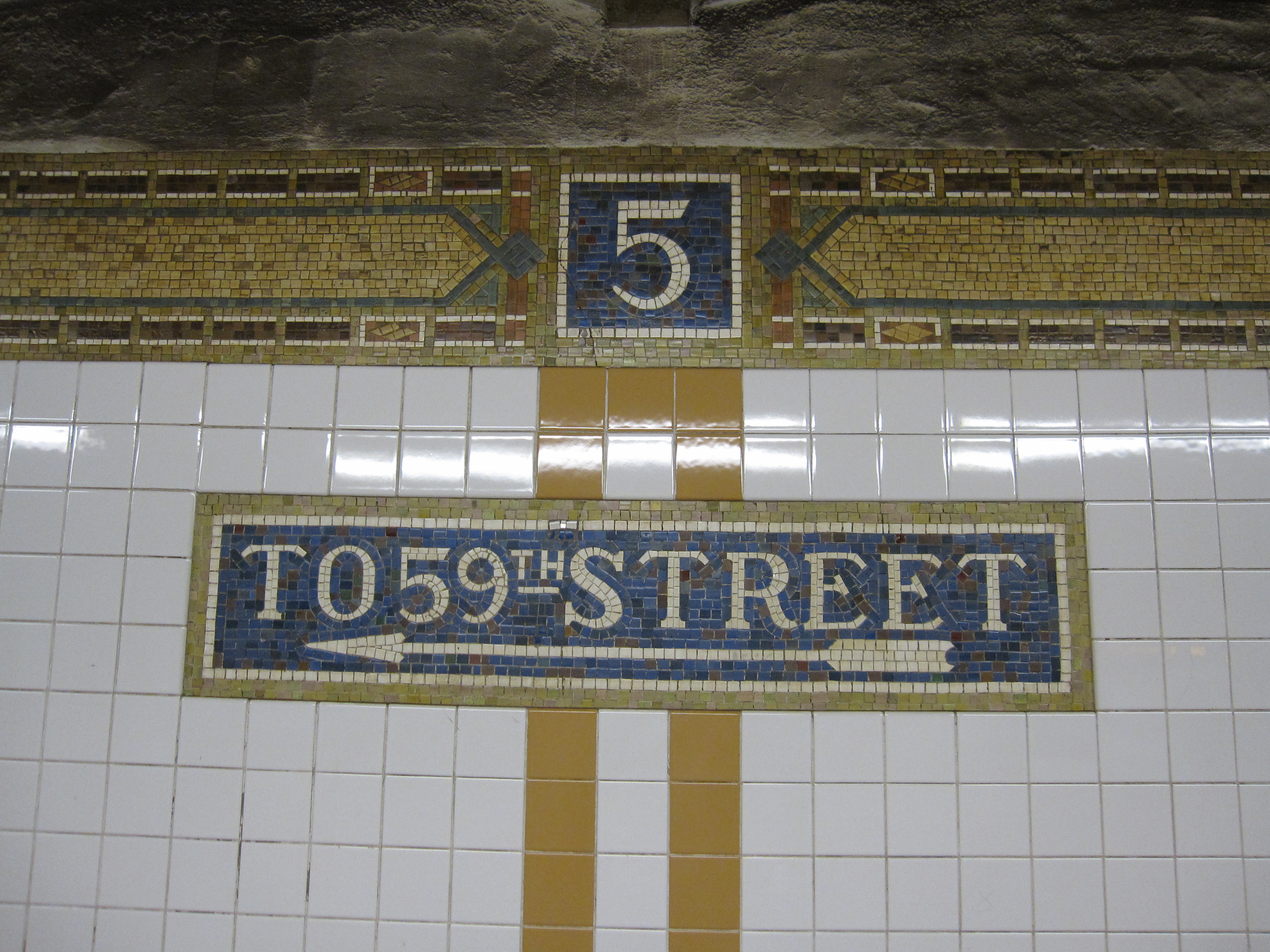 Fifth Avenue (BMT Broadway Line)